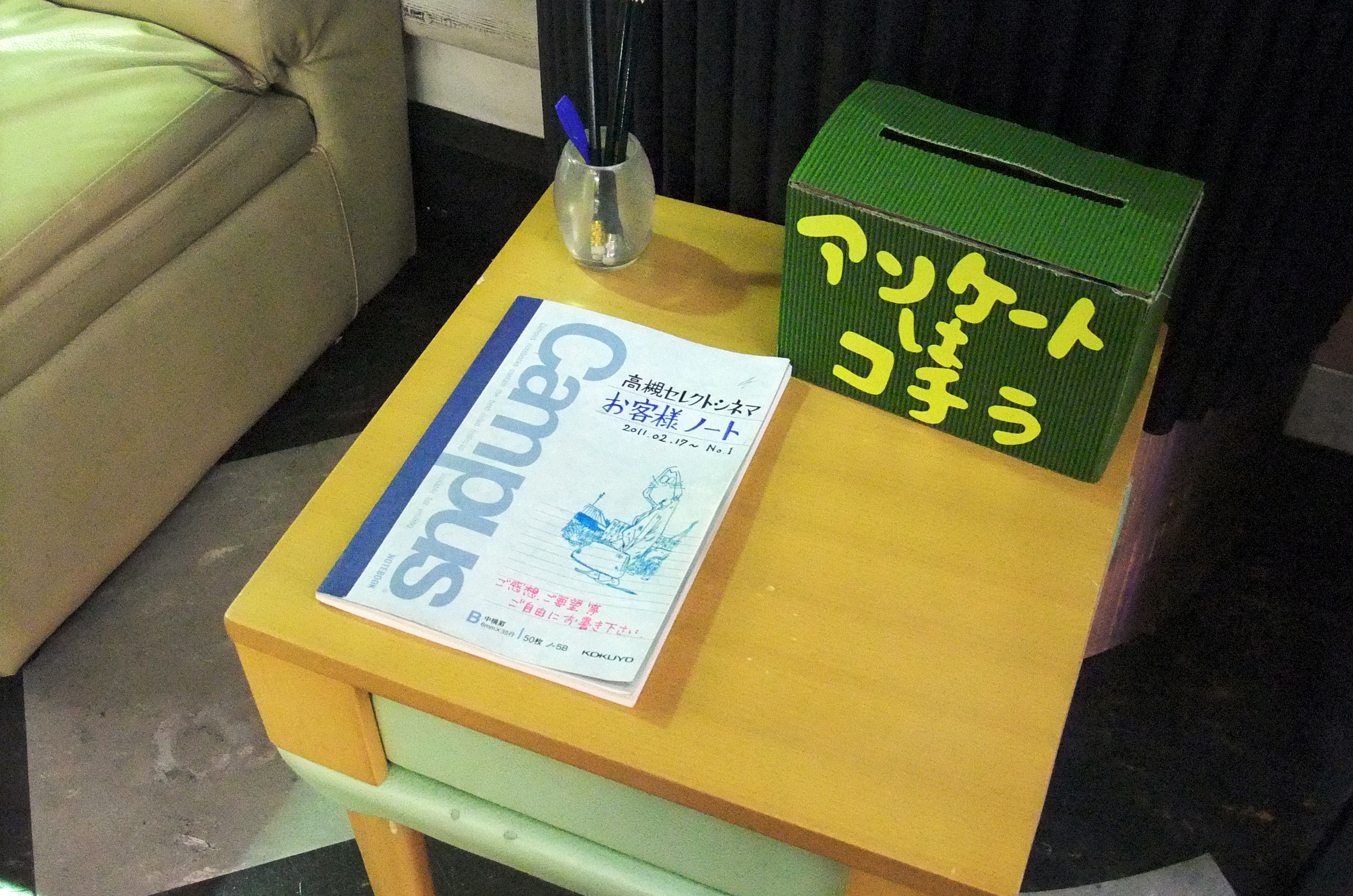 Takatsuki Select Cinema in Takatsuki, Osaka Prefecture, Japan.